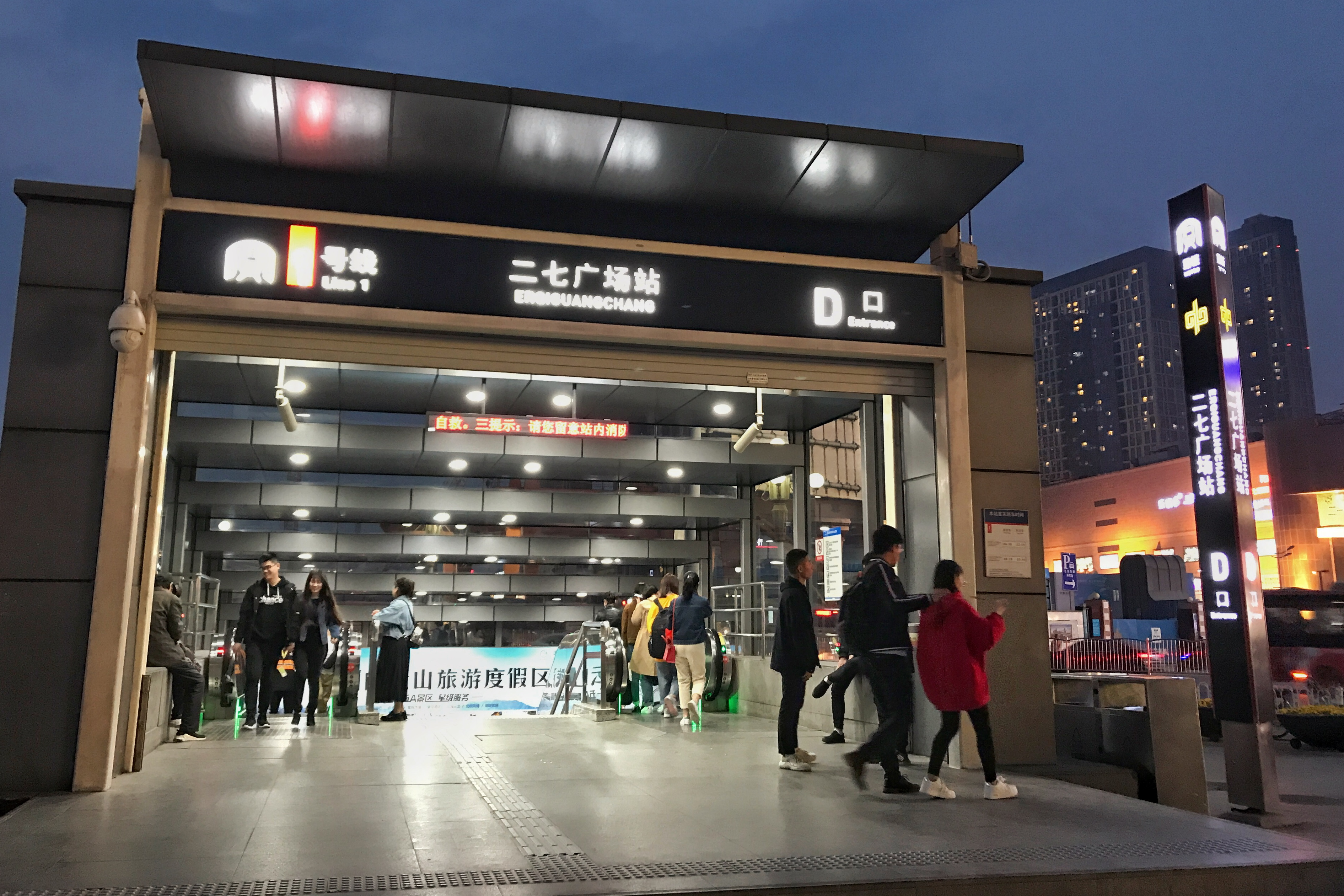 Exit D of Erqiguangchang Station